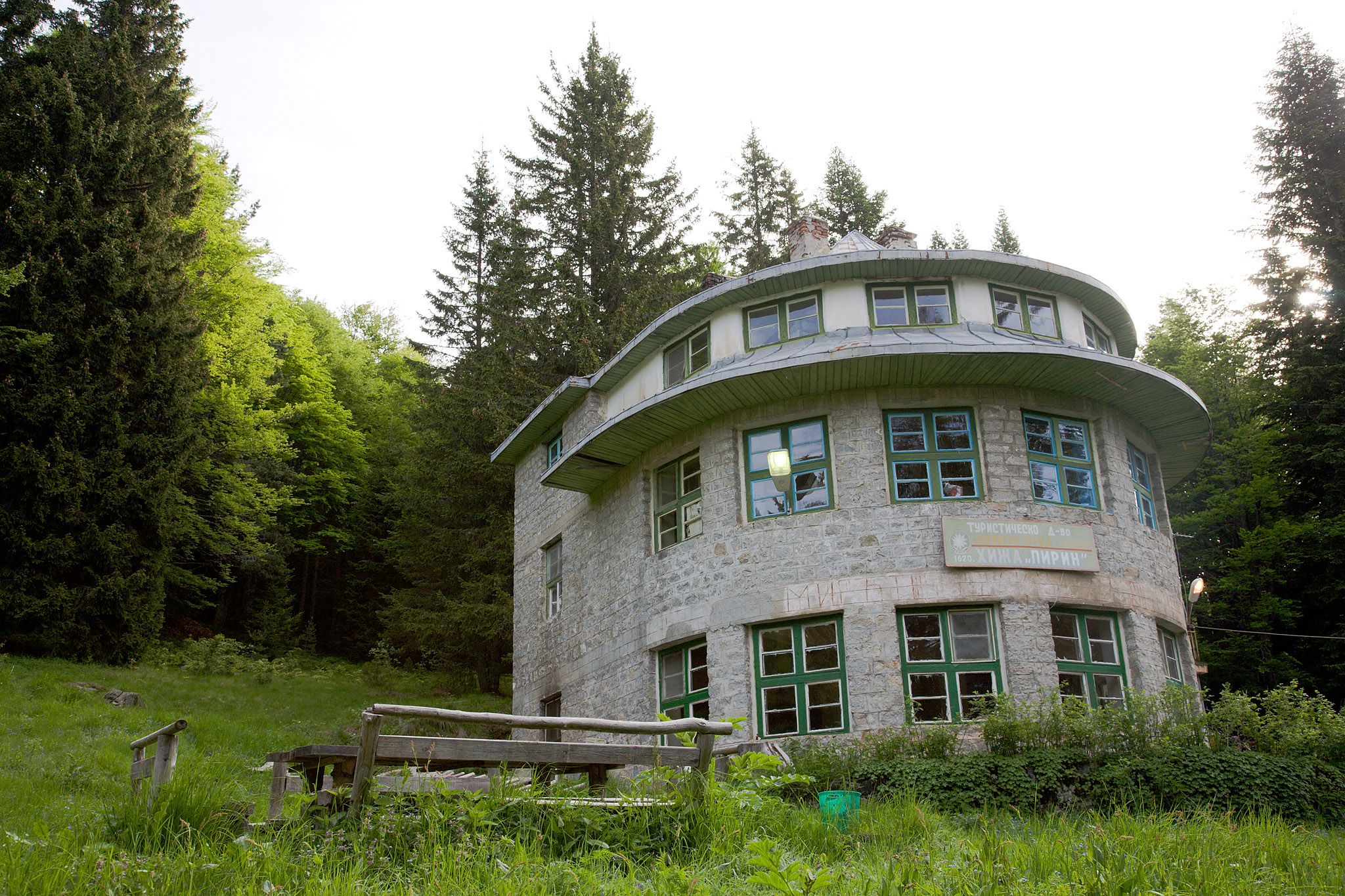 The Pirin refuge in Pirin mountains, Bulgaria